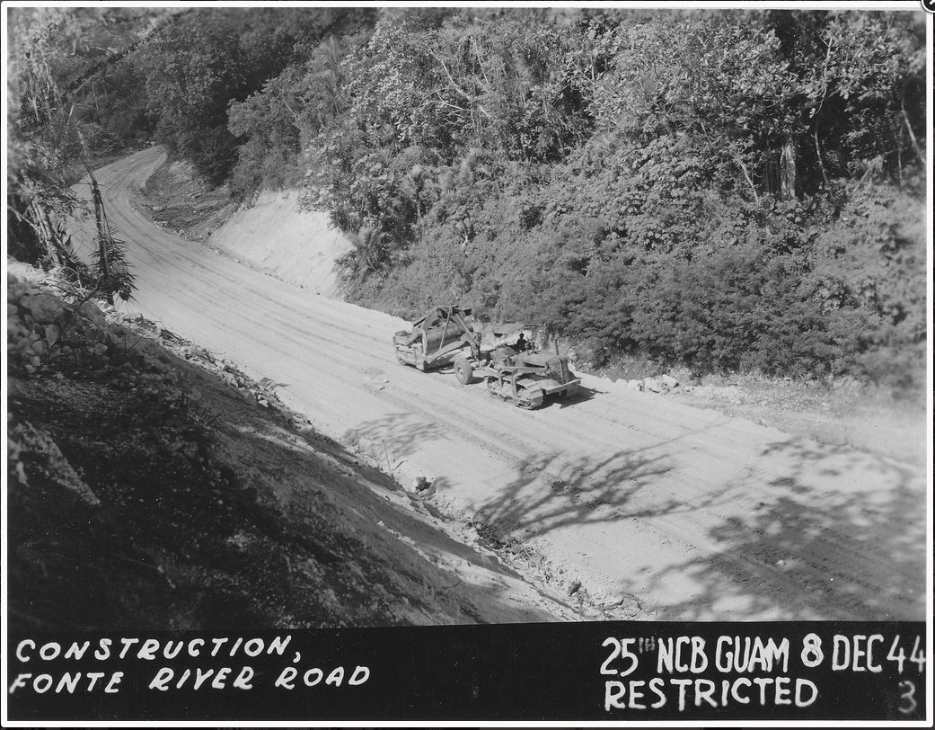 25th NCB dozer with Le tourneau scraper doing road work on Guam